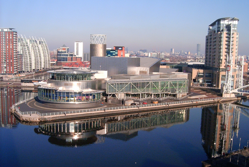 A view of Salford Quays, Salford, Greater MAnchester, England. The Lowry and Salford Quays from the top of the observation tower at the Imperial War Museum North.